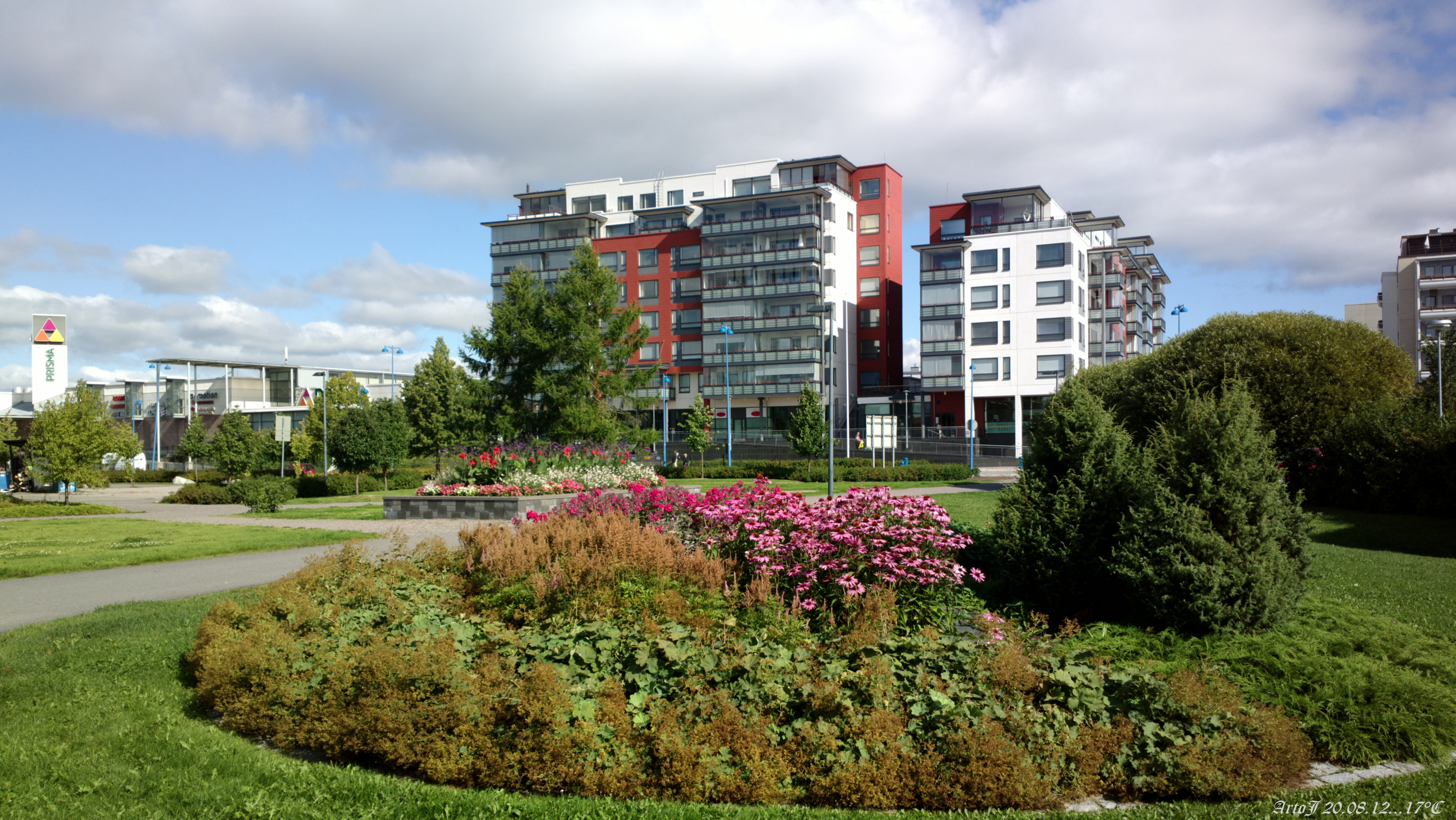 Autumn to Smell already in the Air